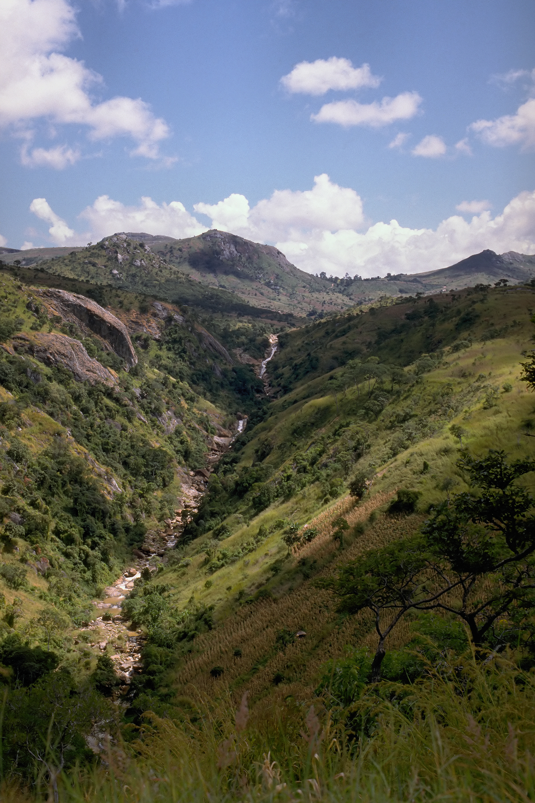 The Golomoti escarpment on the road from Dedza to Cape Macclear, Malawi.